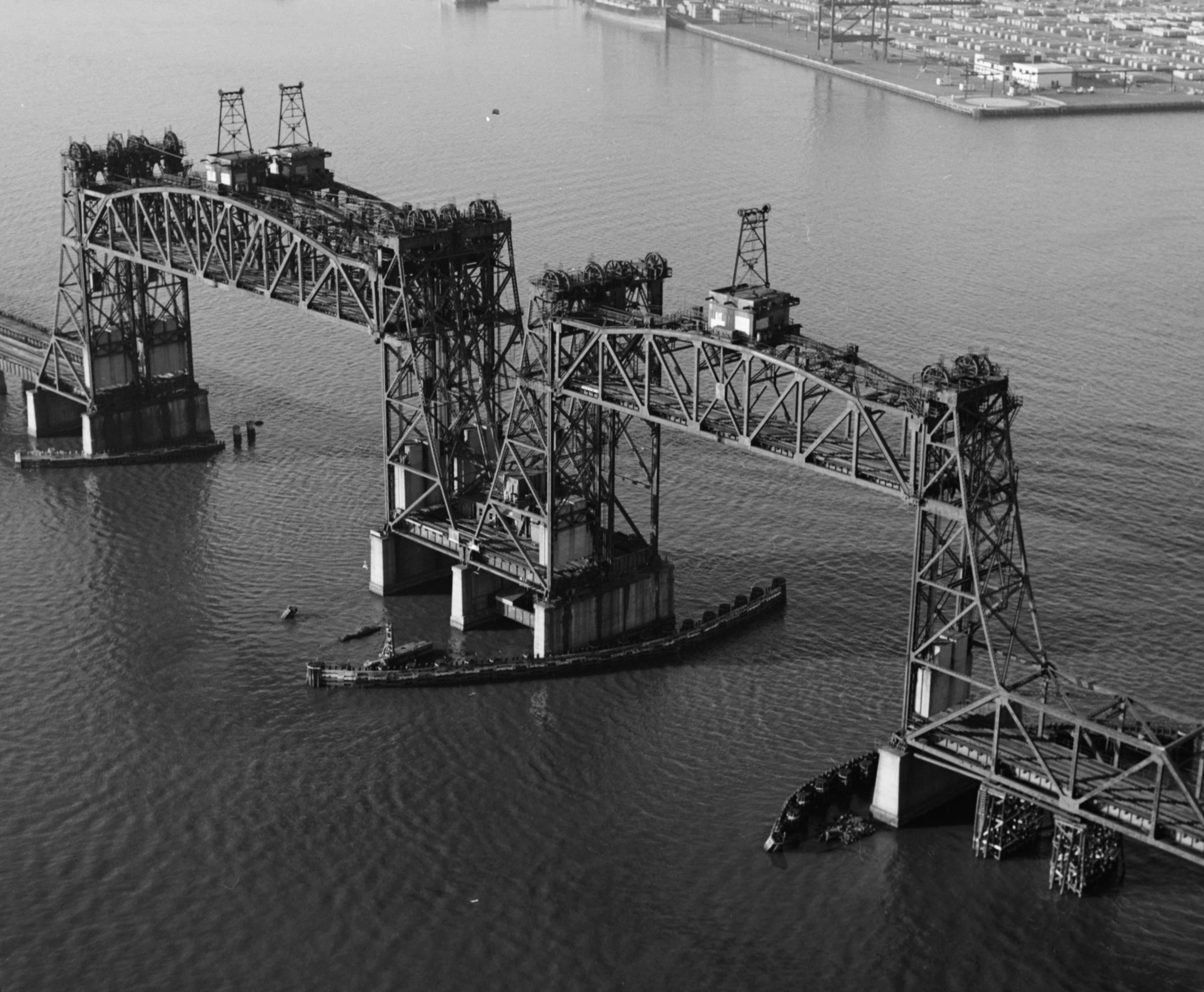 Photo of Jersey Central Railroad (CRRNJ) Newark Bay Bridge, between Bayonne and Elizabeth, New Jersey, with lifts raised. Caption: "Detail aerial view looking northwest at 45 degree angle." The bridge was built 1924-25; dismantled in 1980.